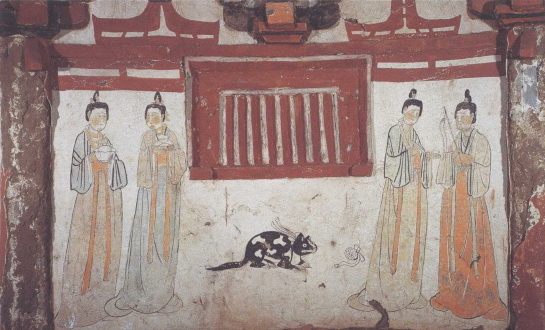 Fresco of Xu Congyun's Tomb, Northeast Part